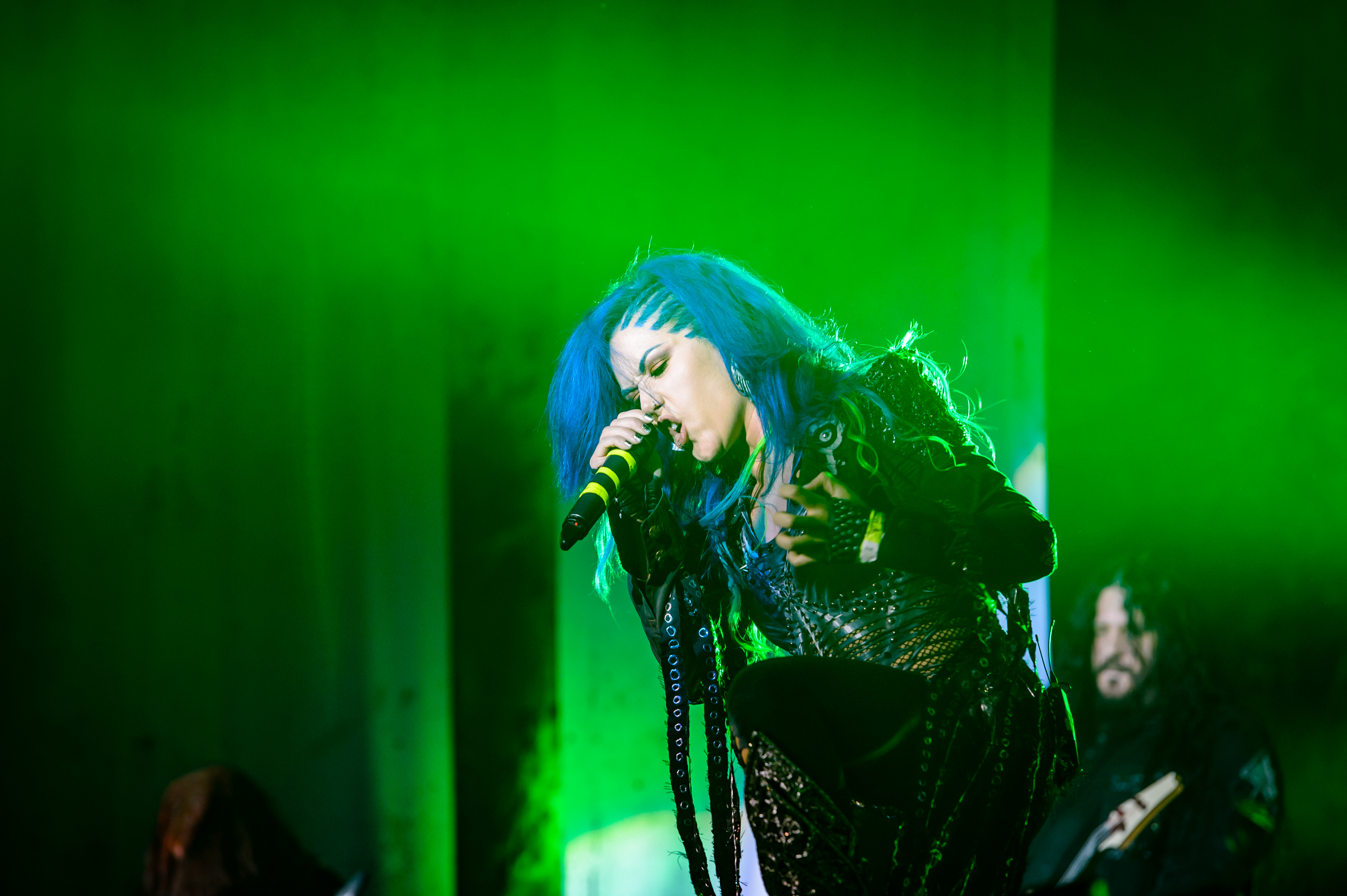 Arch Enemy; Wacken Open Air 2016